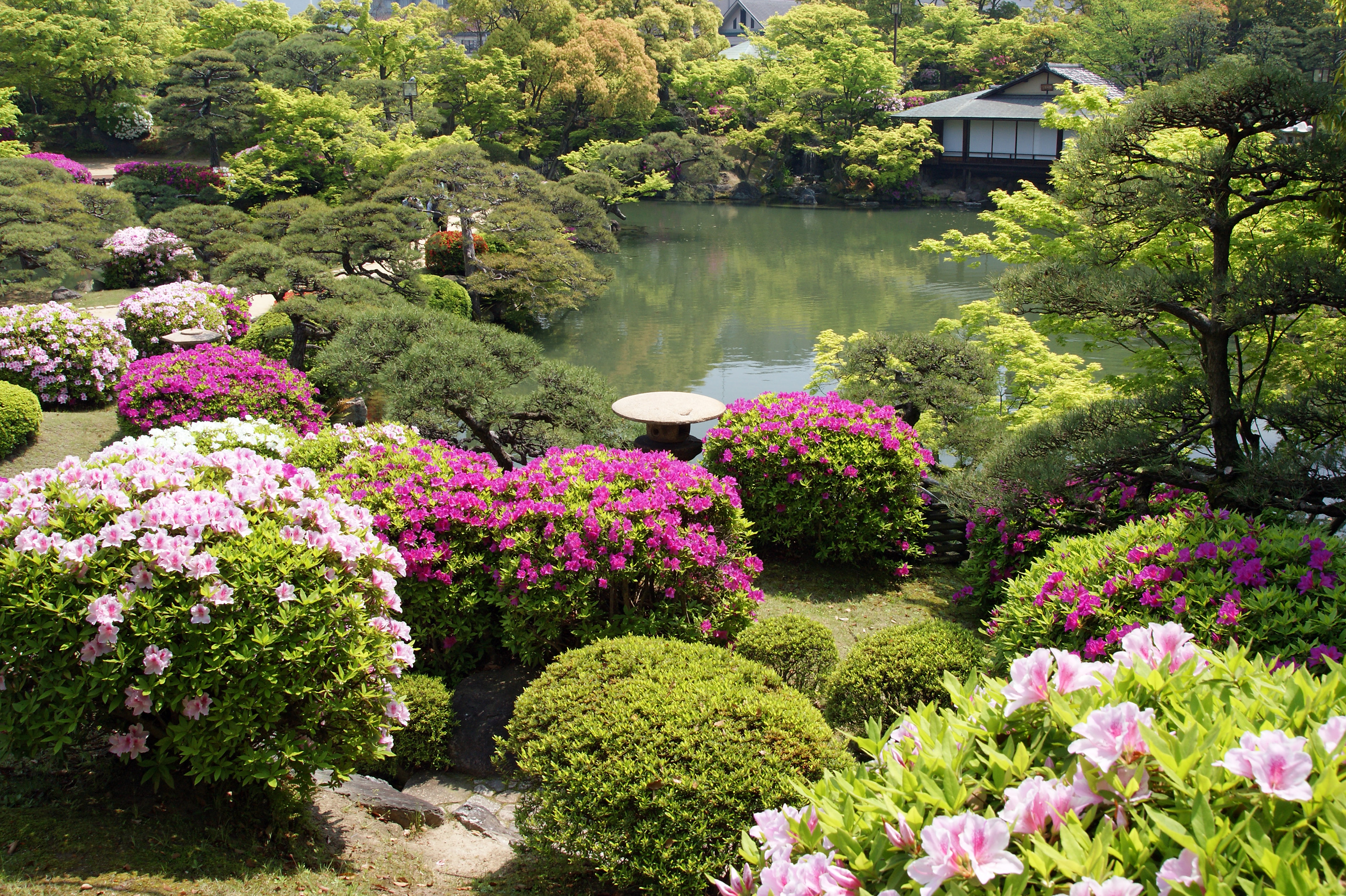 Sorakuen in Kobe, Hyogo prefecture, Japan